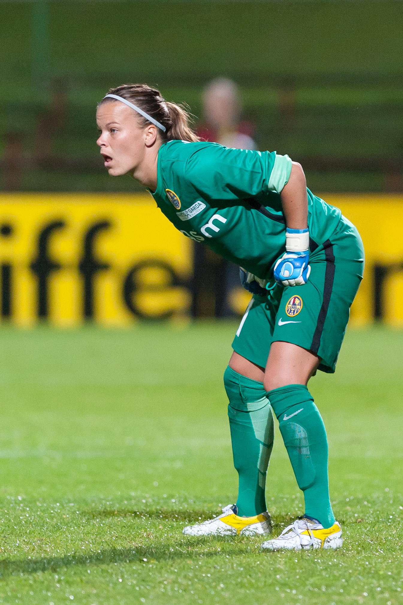 UEFA Women's Champions League FSK St. Pölten-Spratzern vs ASF CF Verona, St. Pölten, 2015-10-07